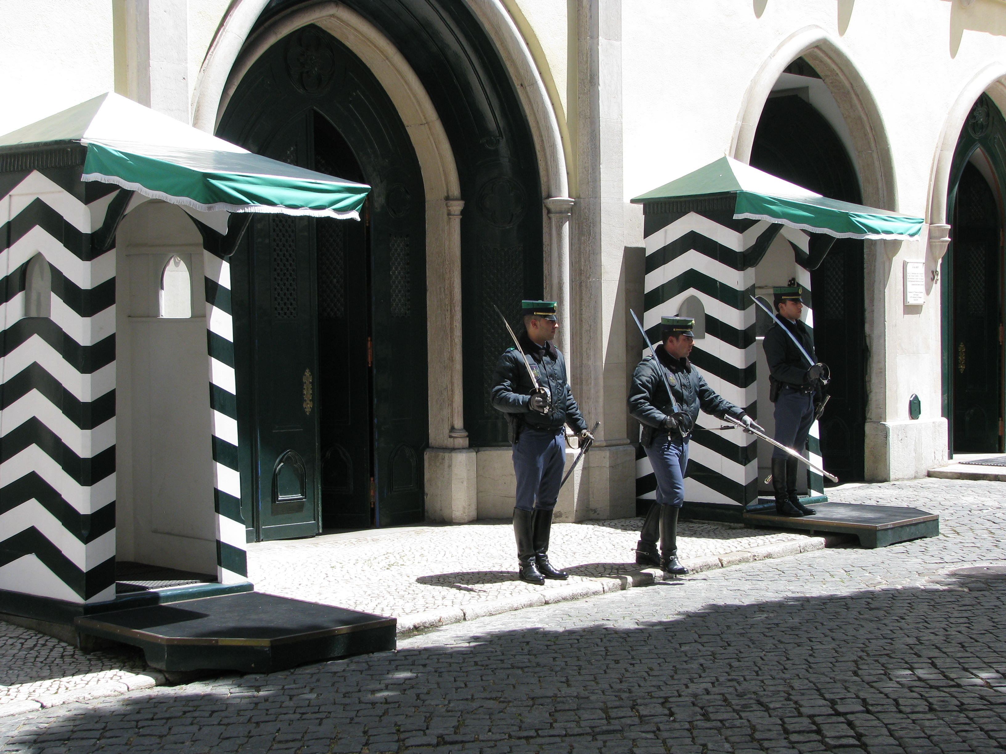 Members of Guarda Nacional Republicana in Lisbon